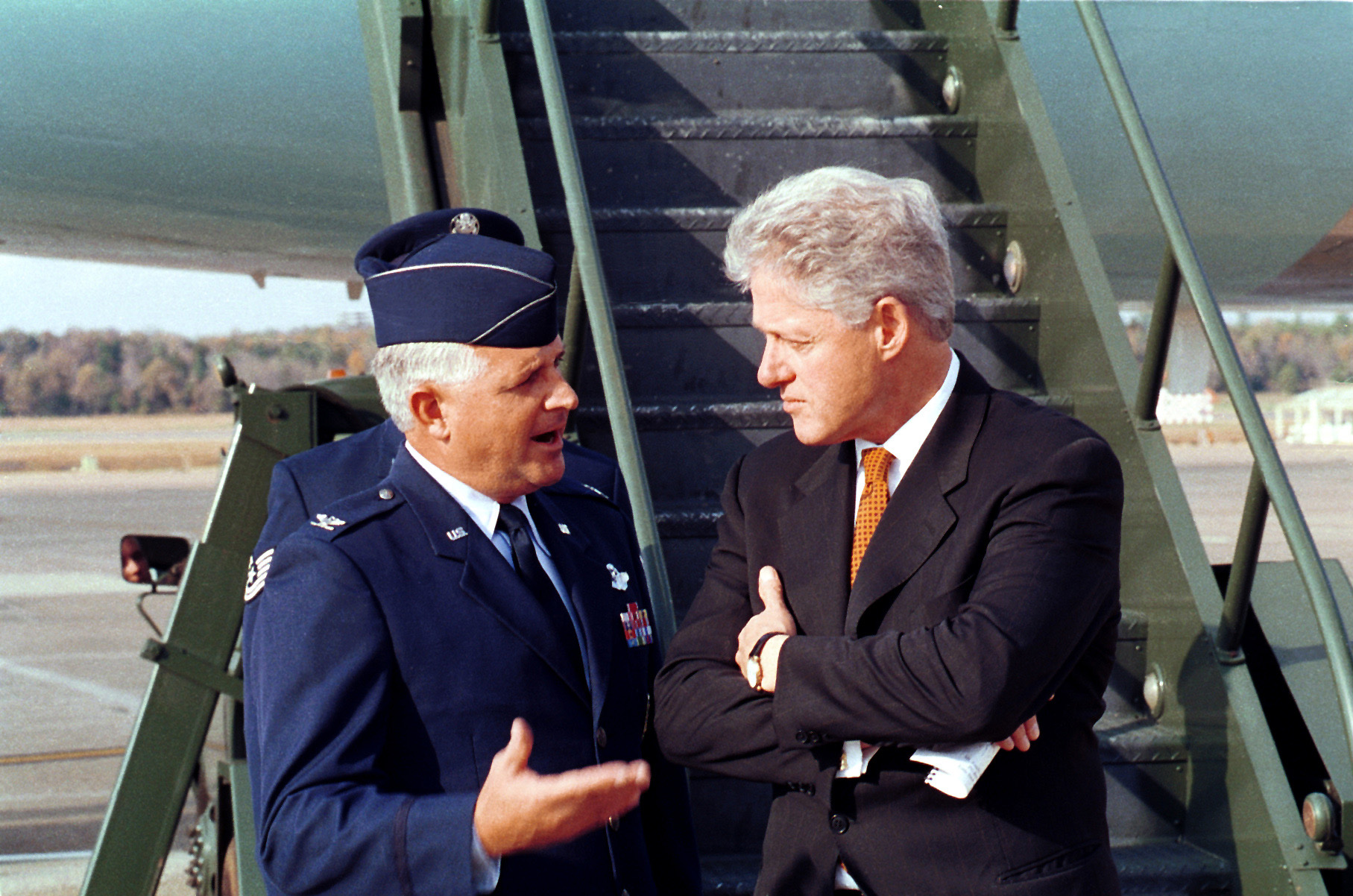 Prior to his departure, aboard Air Force One, President William Clinton discusses current military issues with US Air Force Colonel Paul Fletcher, 314 Air Wing Commander, Little Rock Air Force Base, Arkansas.